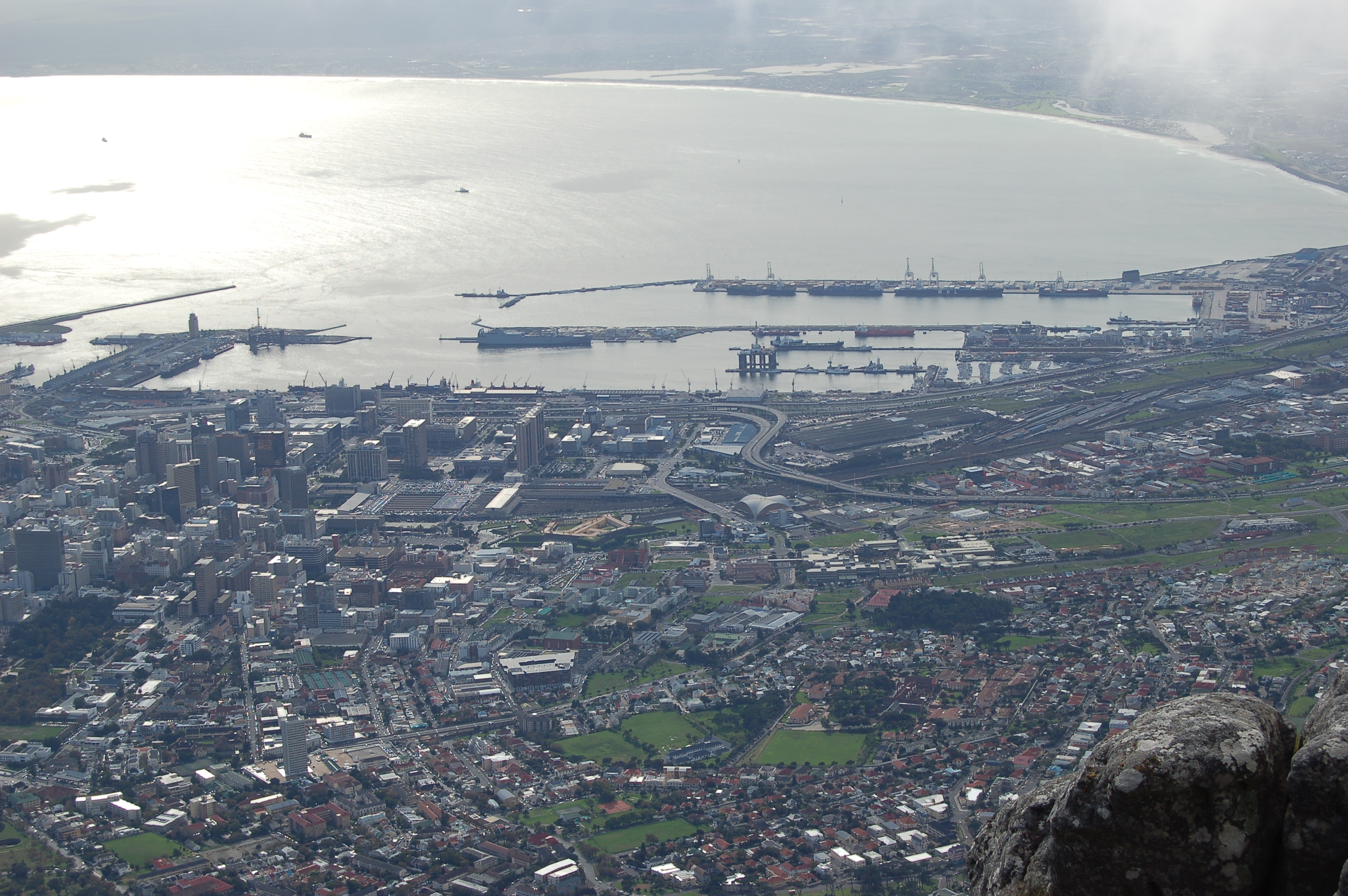 Table Mountain, CapeTown